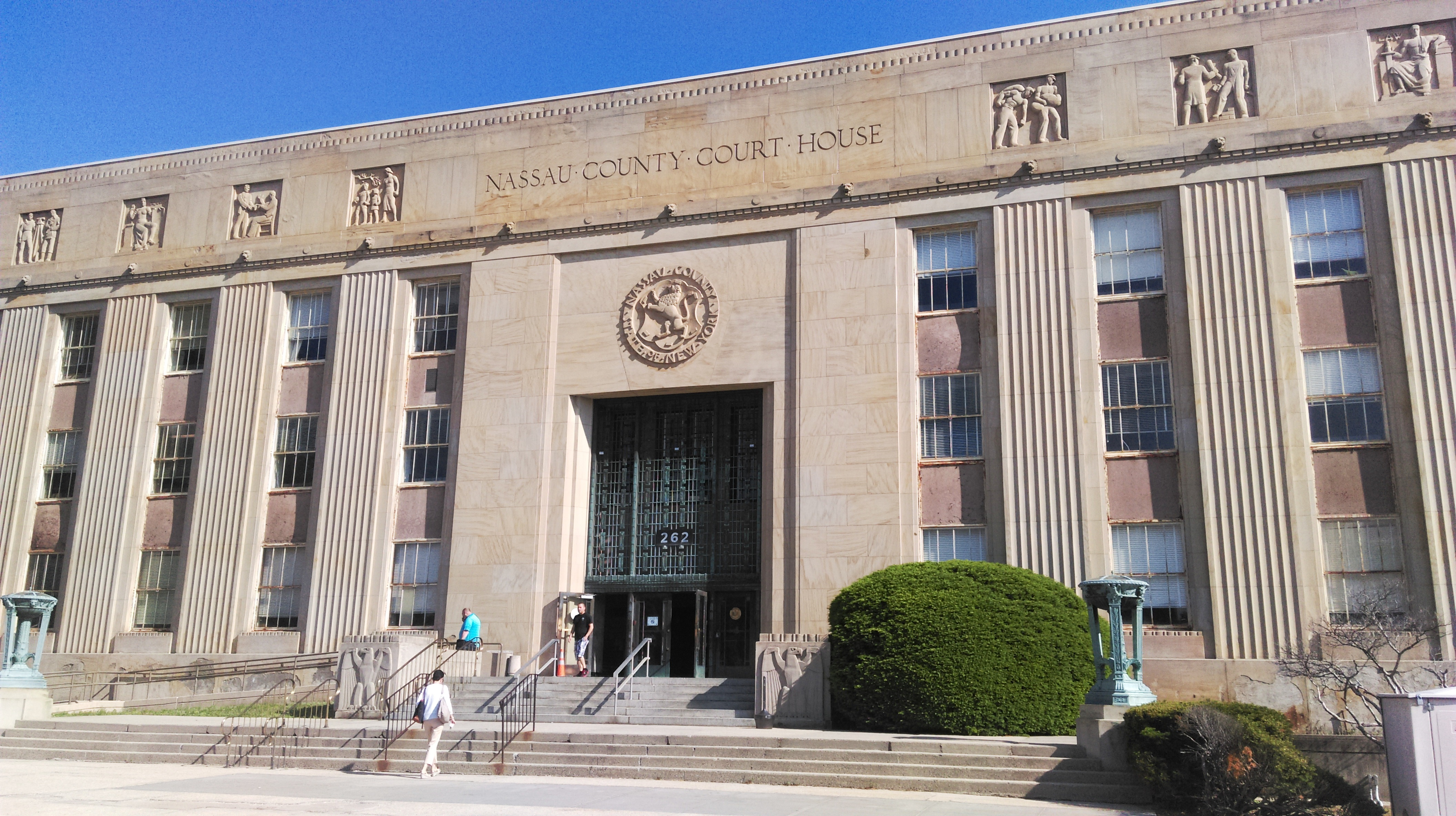 Looking northwest at south entrance of courthouse.